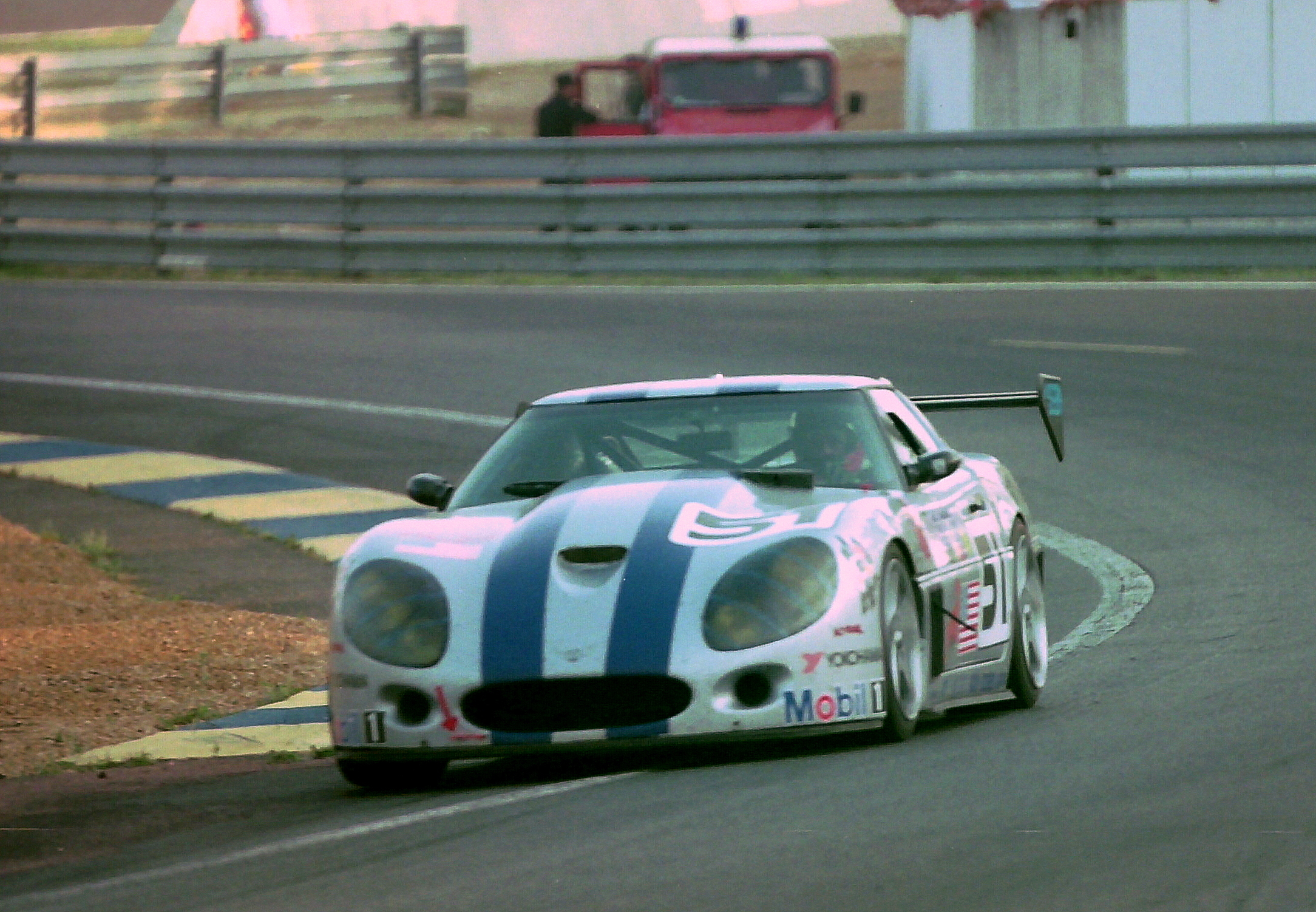 Callaway Corvette - Boris Said, Michel Maisonneuve & Frank Jelinski exits Esses at the 1994 Le Mans